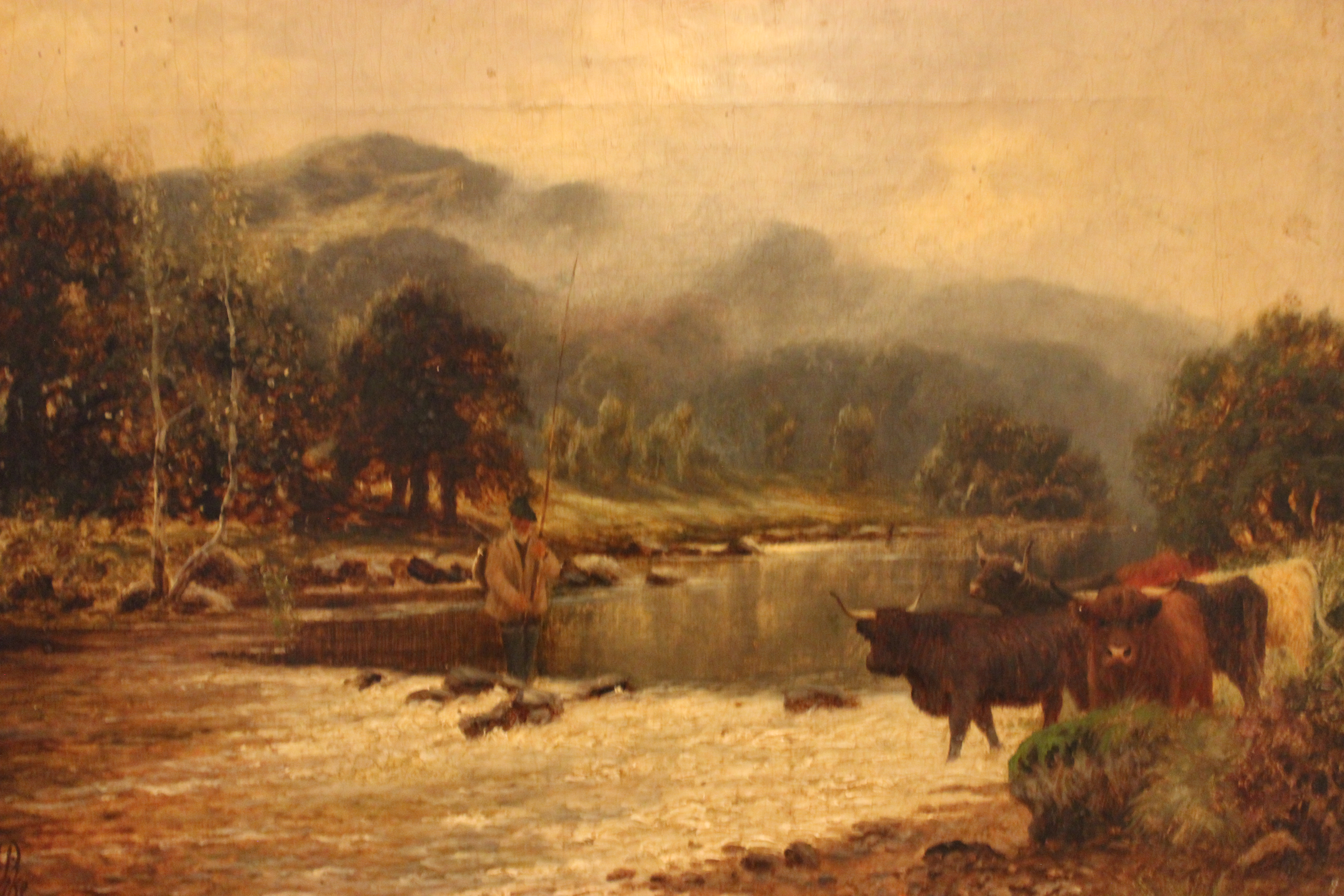 Oil on canvas, highland cattle and fly fisherman